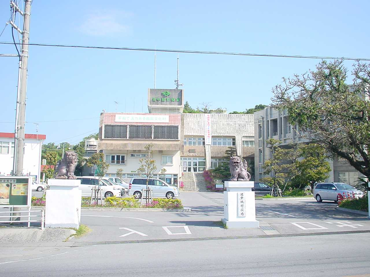 Kitanakagusuku Vilage Office in Okinawa, Japan.